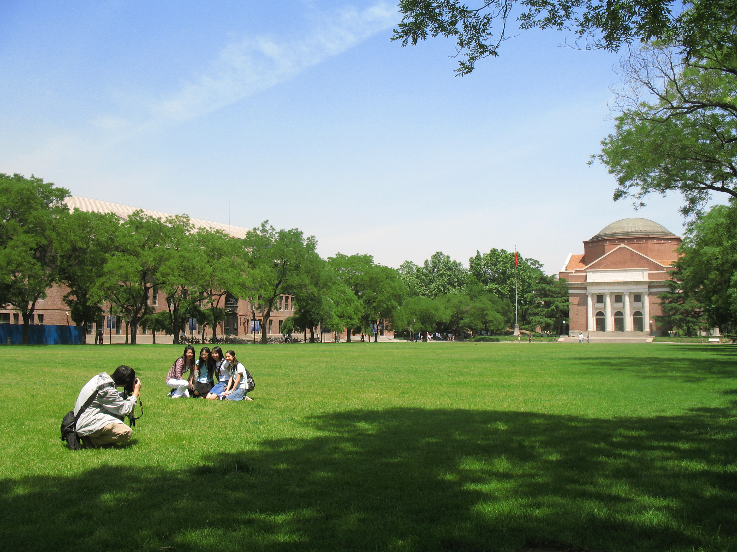 The Tsinghua University campus in Beijing, China.